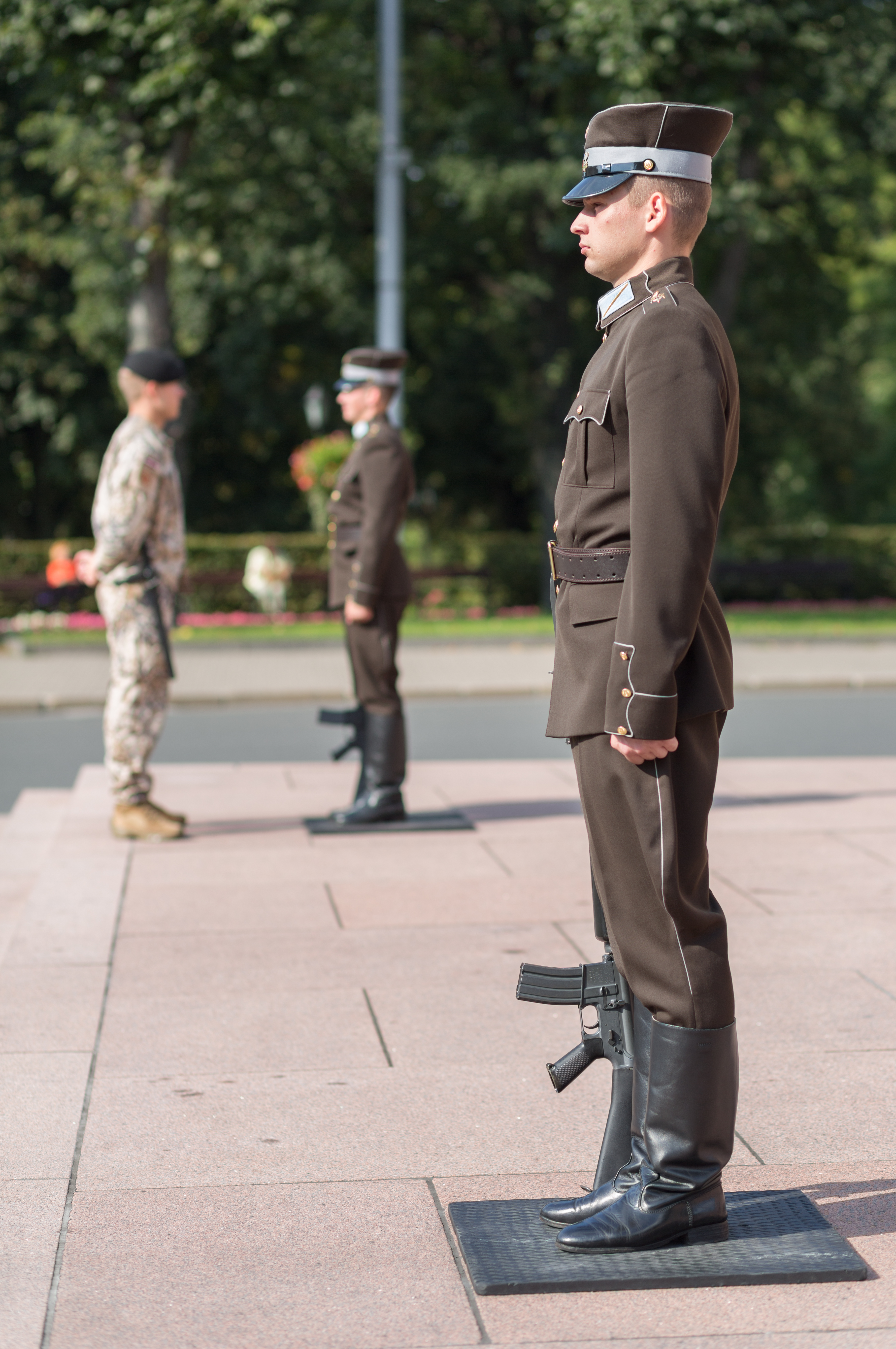 Two Latvian soldiers in ceremonial uniform of The Company of Guard of Honor, guarding the Freedom Monument in Riga, Latvia, while being inspected by a superior officer.